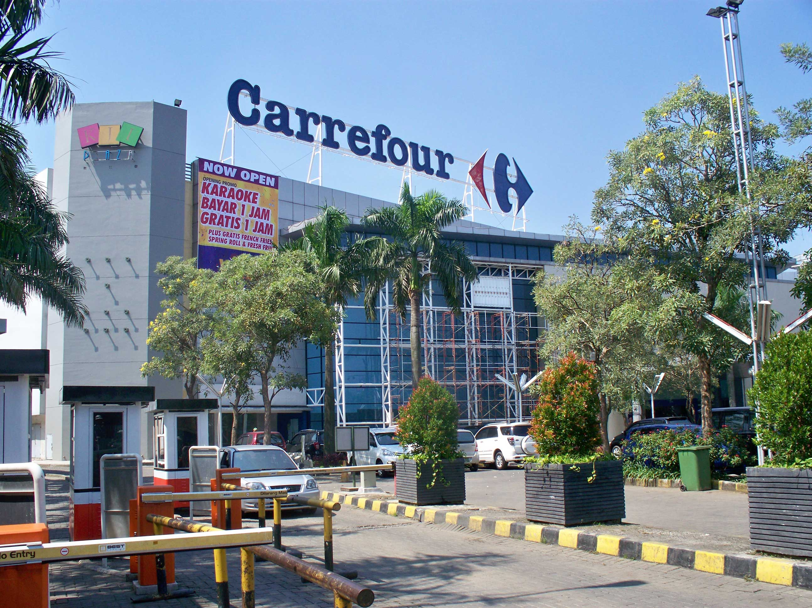 Carrefour Kramat Jati